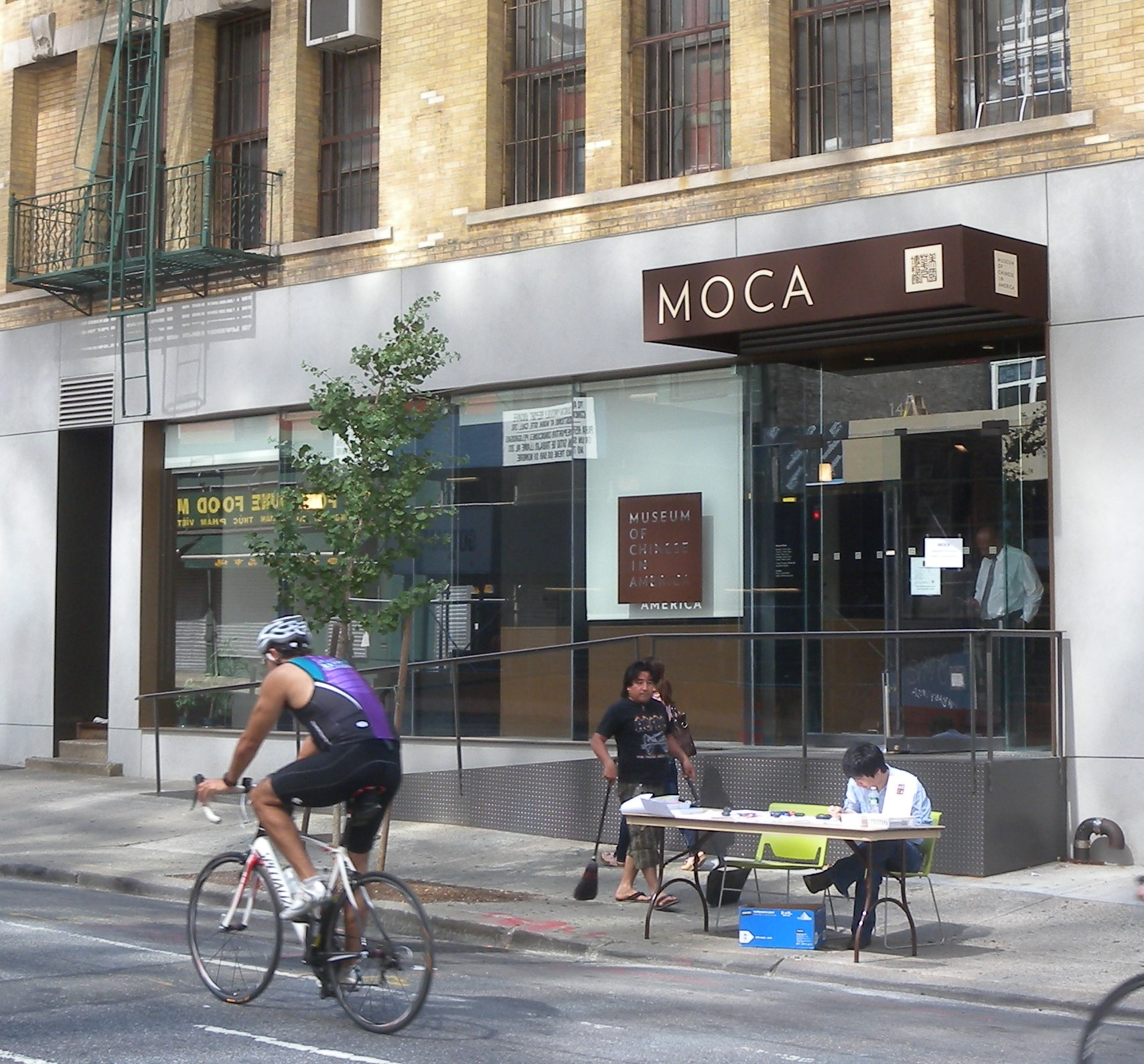 Looking east at Museum of Chinese in America (MOCA), old Lafayette Street location, on a sunny late morning.